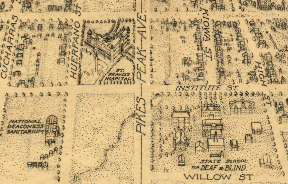 The vertical line on "Pikes Peak Ave" indicates the east-west Knob Hill trolley line of the Colorado Springs and Interurban Railway c. 1903 as the "National Deaconess Sanitarium" (lower left) was renamed November 1903 to the "Colorado Conference Deaconess Hospital and Nurses Training School"